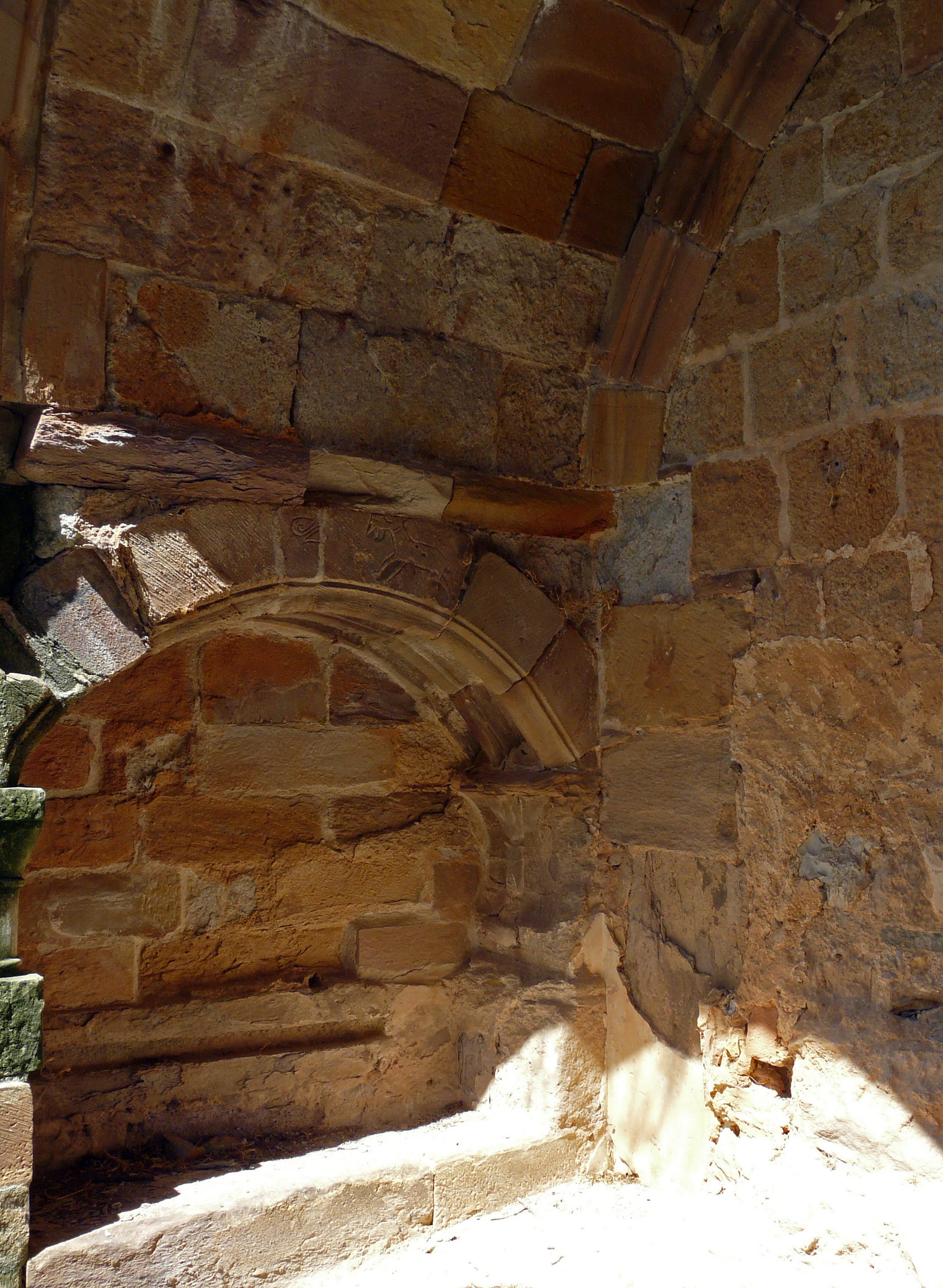 Armarium (book chests), Moreruela Abbey, Granja de Moreruela, Zamora, Spain